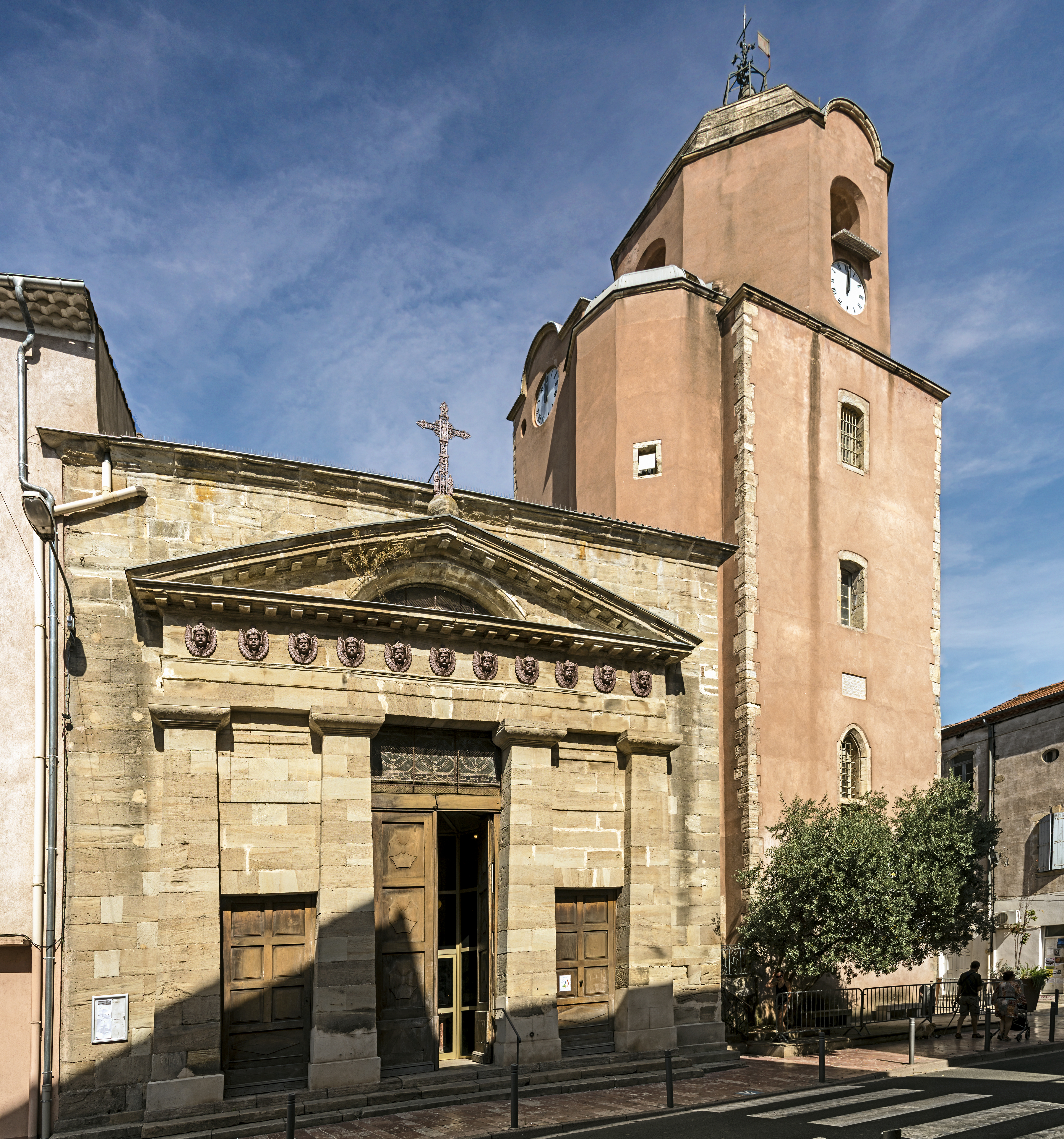 Bédarieux Hérault France - SE facade of the St. Alexander Church, designed by the architect Jean-Pierre Blanc in 1821.